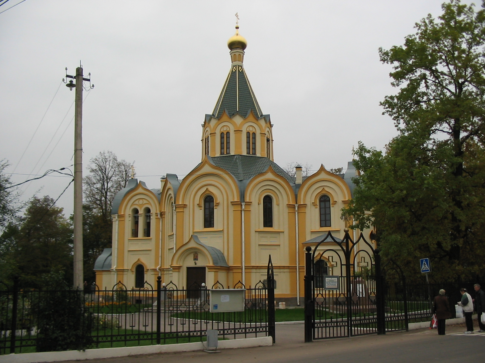 Orthodox church